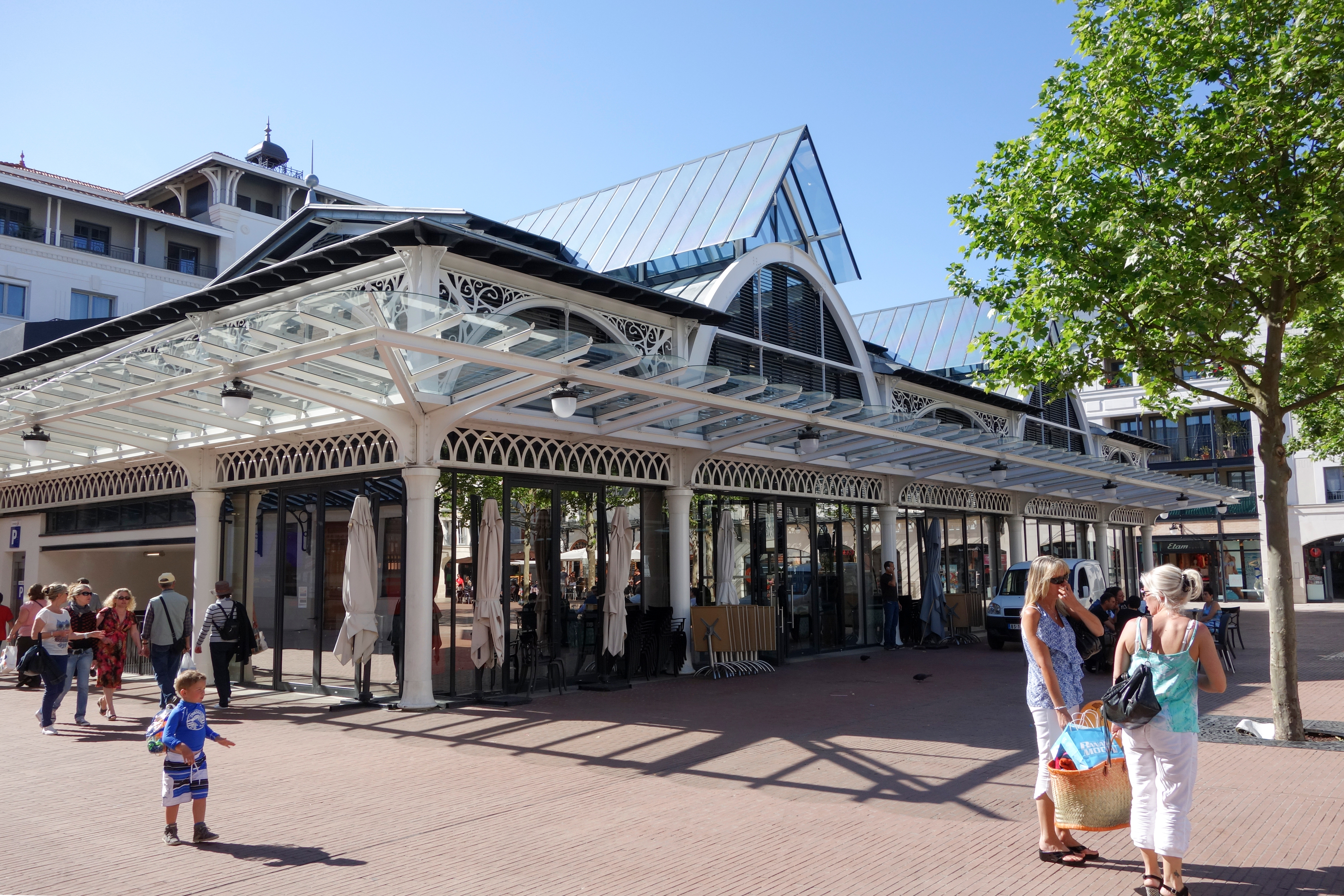 marché